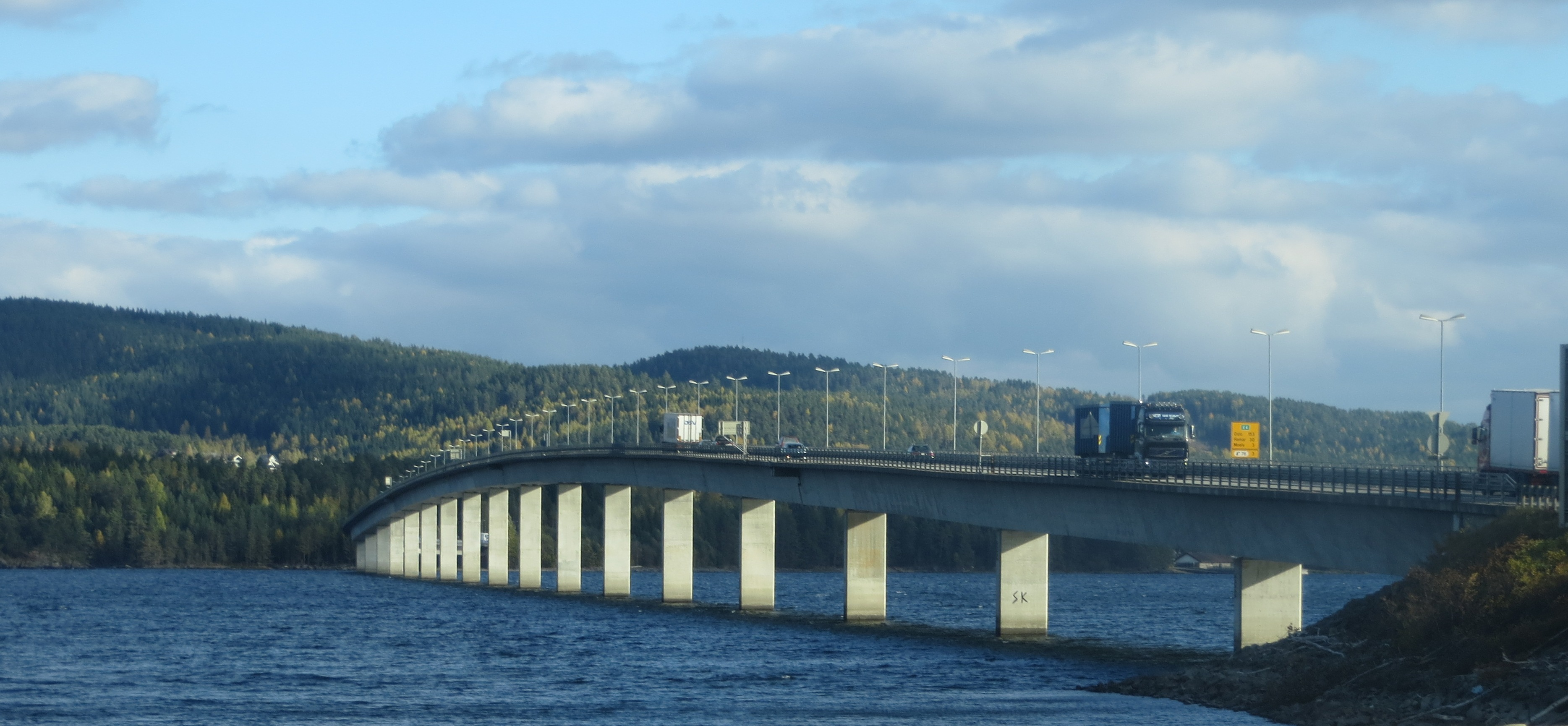 Image of the western part of Ringsaker municipality, at lake Mjøsa, seen from the western bank of the lake. Opland, Norway